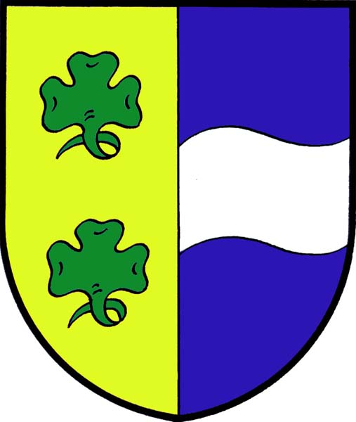 Municipal coat of arms of Habrovany village, Ústí nad Labem District, Czech Republic.